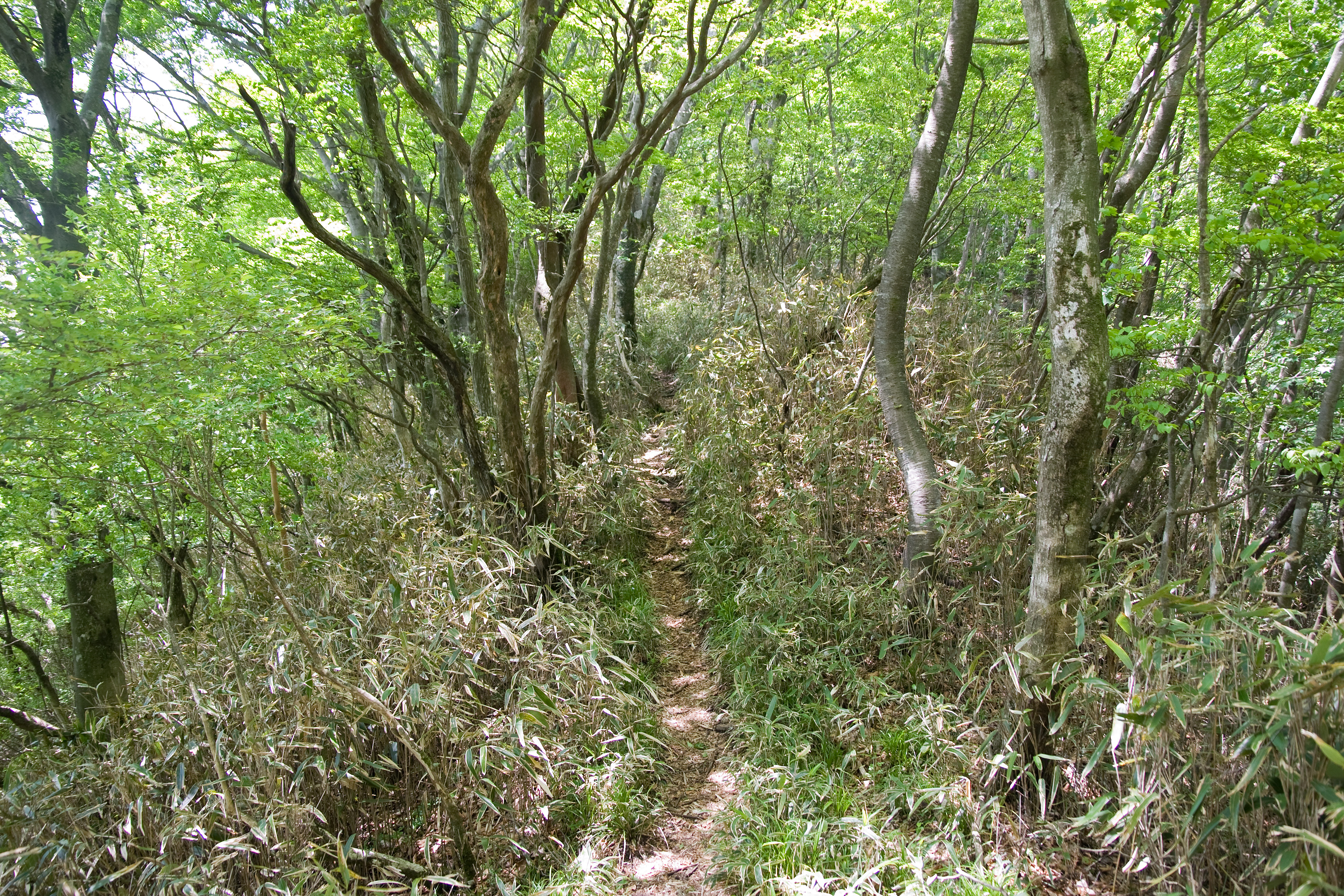 The forest in Mt.Bunasawanoatama, Tanzawa Mountains, Kanagawa Pref., Japan.